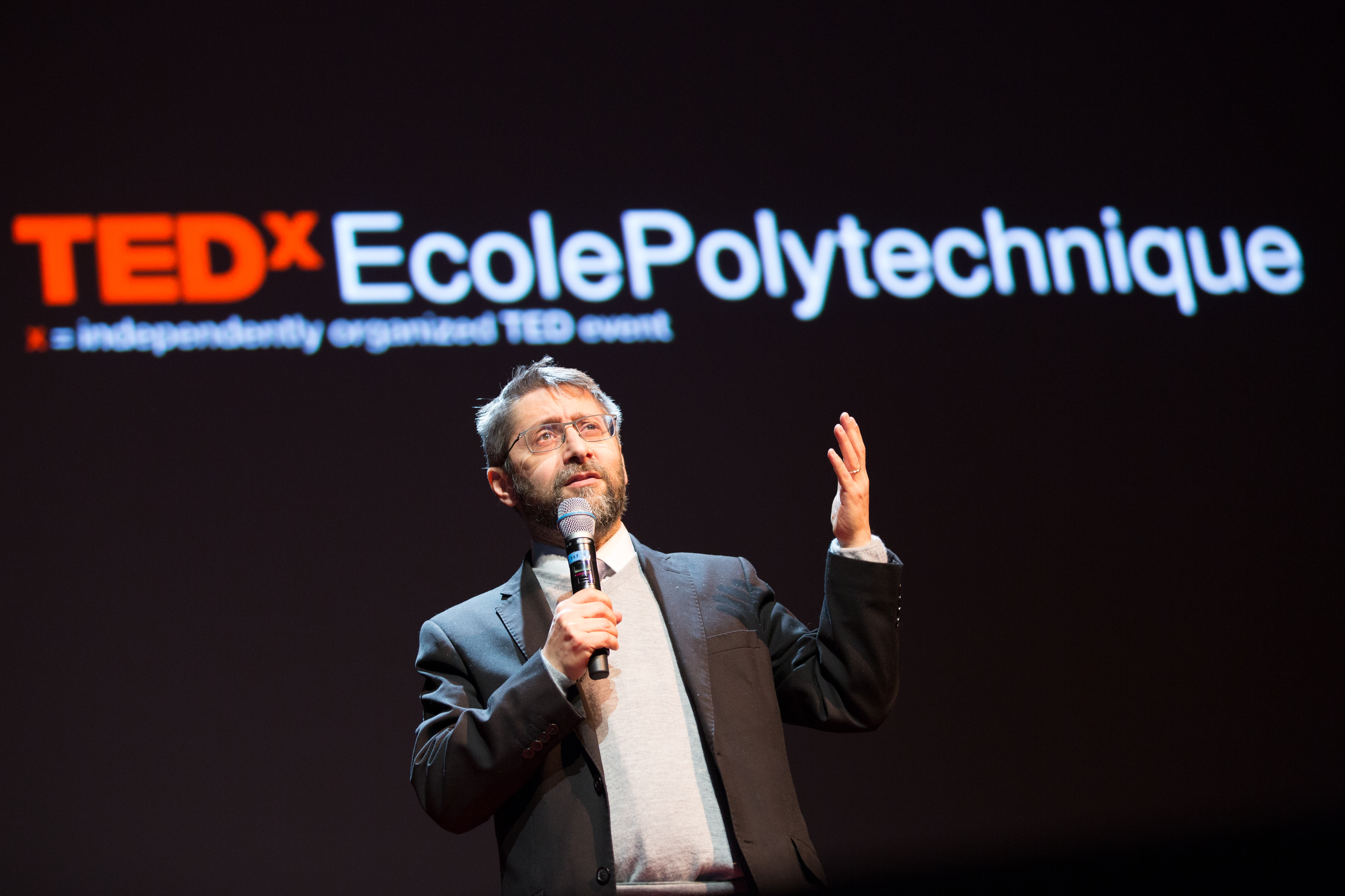 Haïm Korsia at the TEDxÉcolePolytechnique conference in January 2017